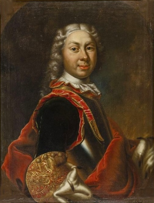 Portrait of John August of Saxe-Gotha-Altenburg (1704-1767)